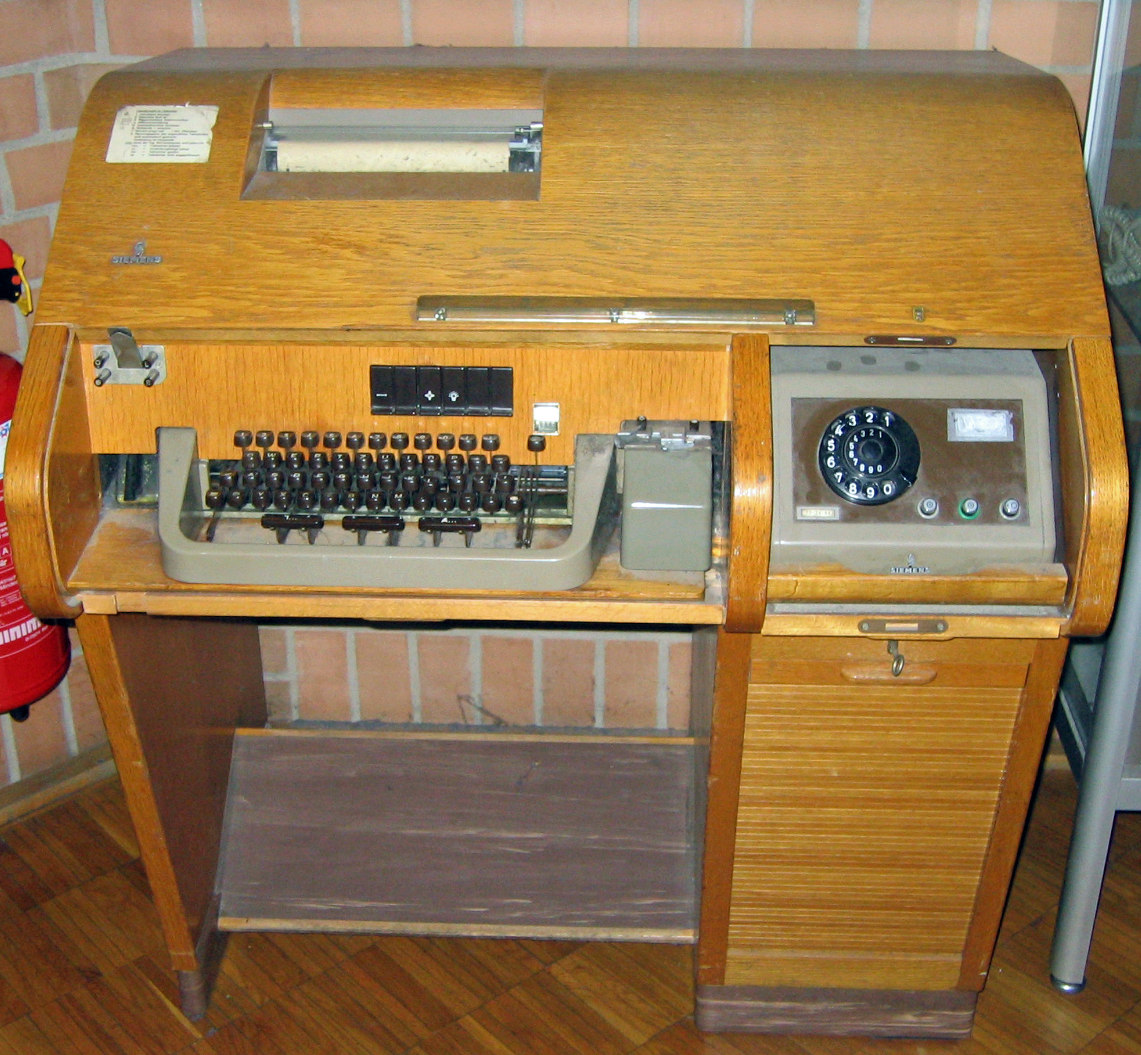 Telex machine T100 manufactured by Siemens. A sign inside said "T.grpl.82, T100; nüral F5230"